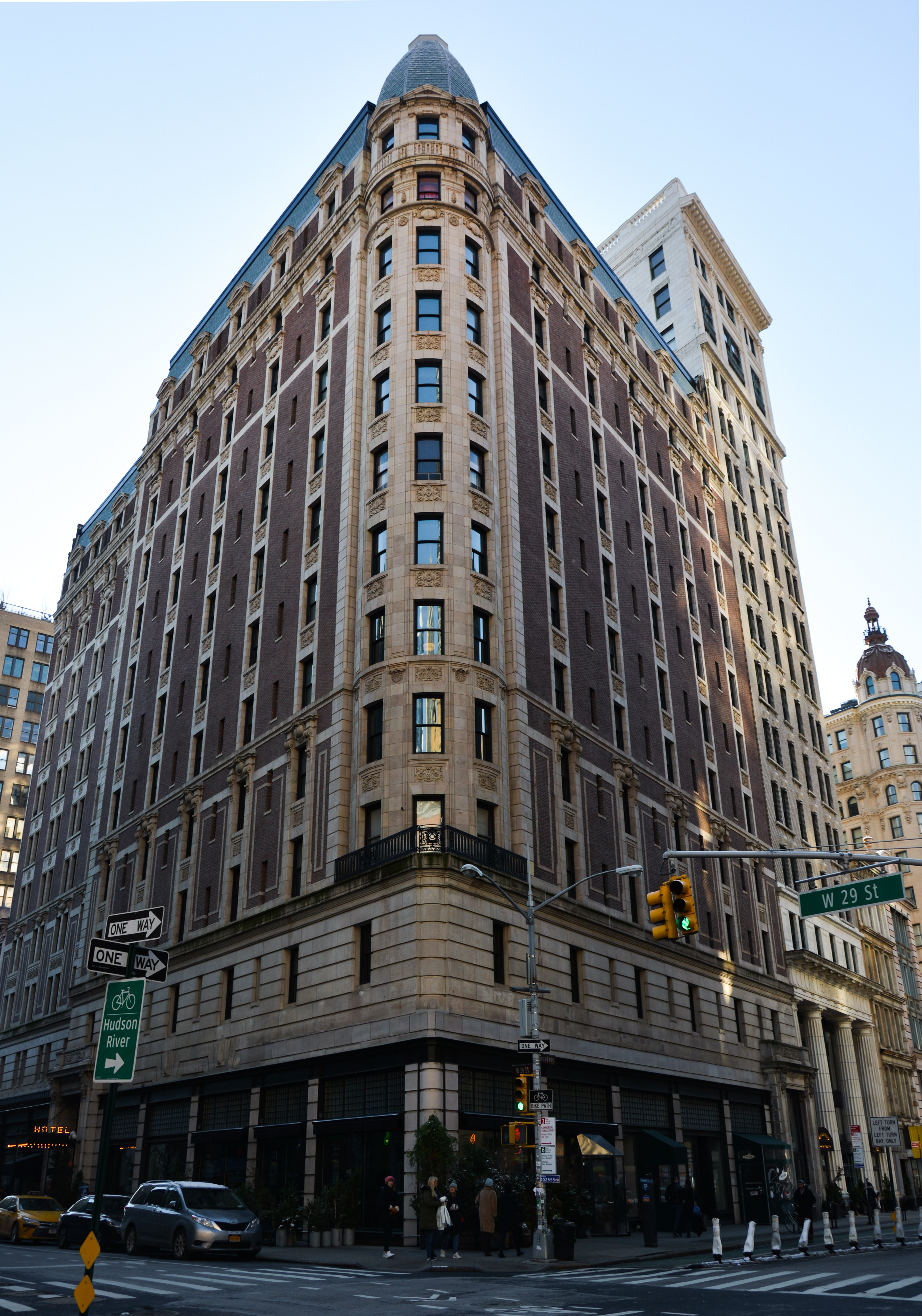 NYC's Ace Hotel, WIkipedia Day 2017.